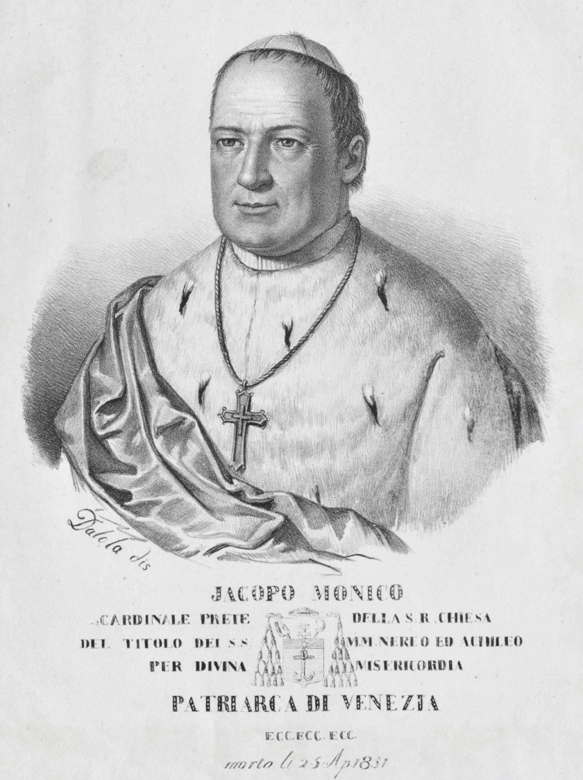 Kardinal Giacomo Monico (1776-1851), Patriarch von Venedig